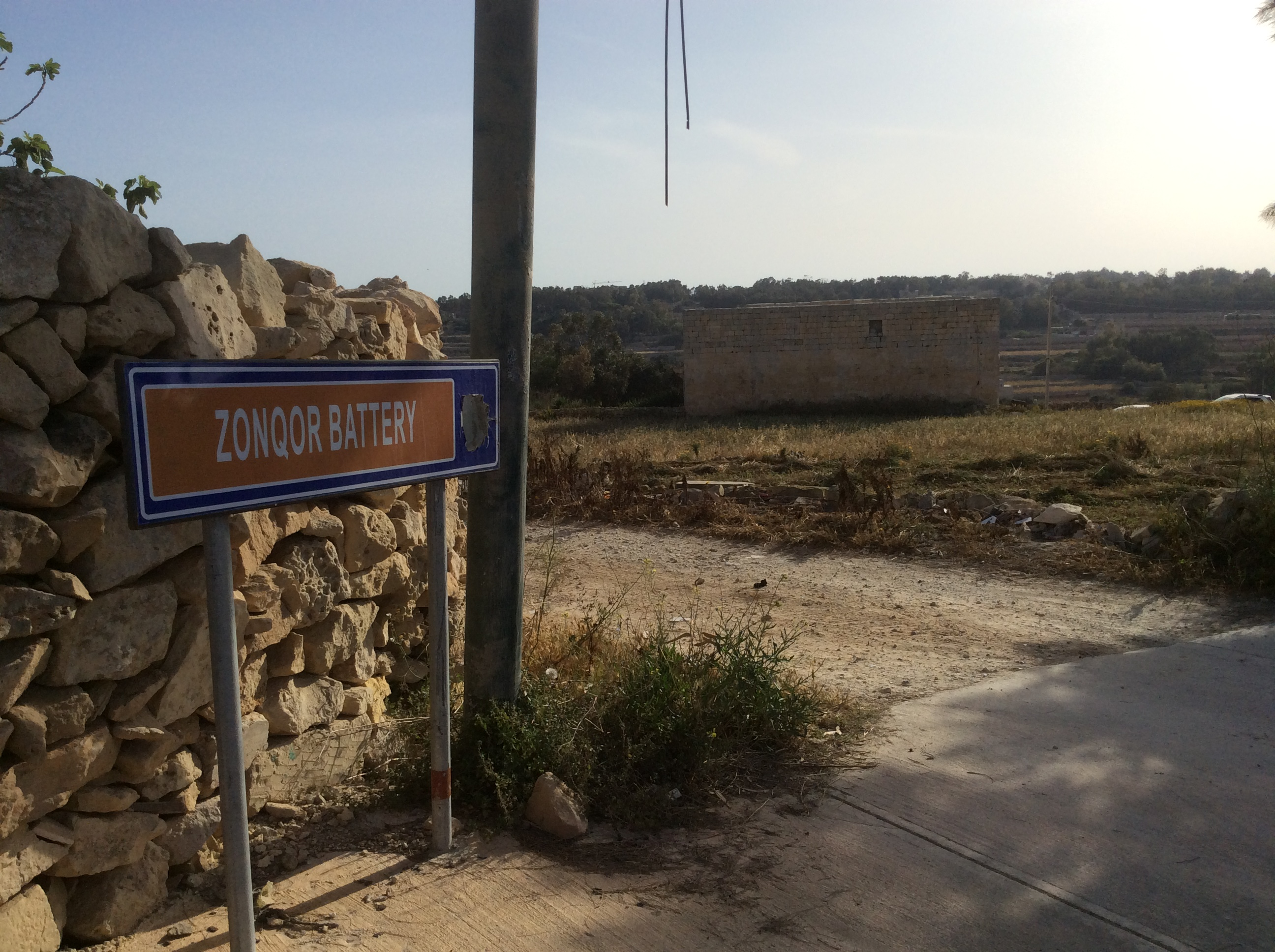 Zonqor Battery sign